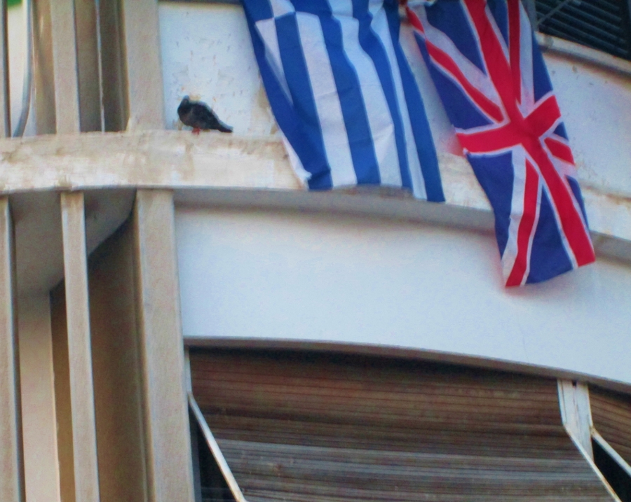 British and Greek flag in a flat in Athens Greece